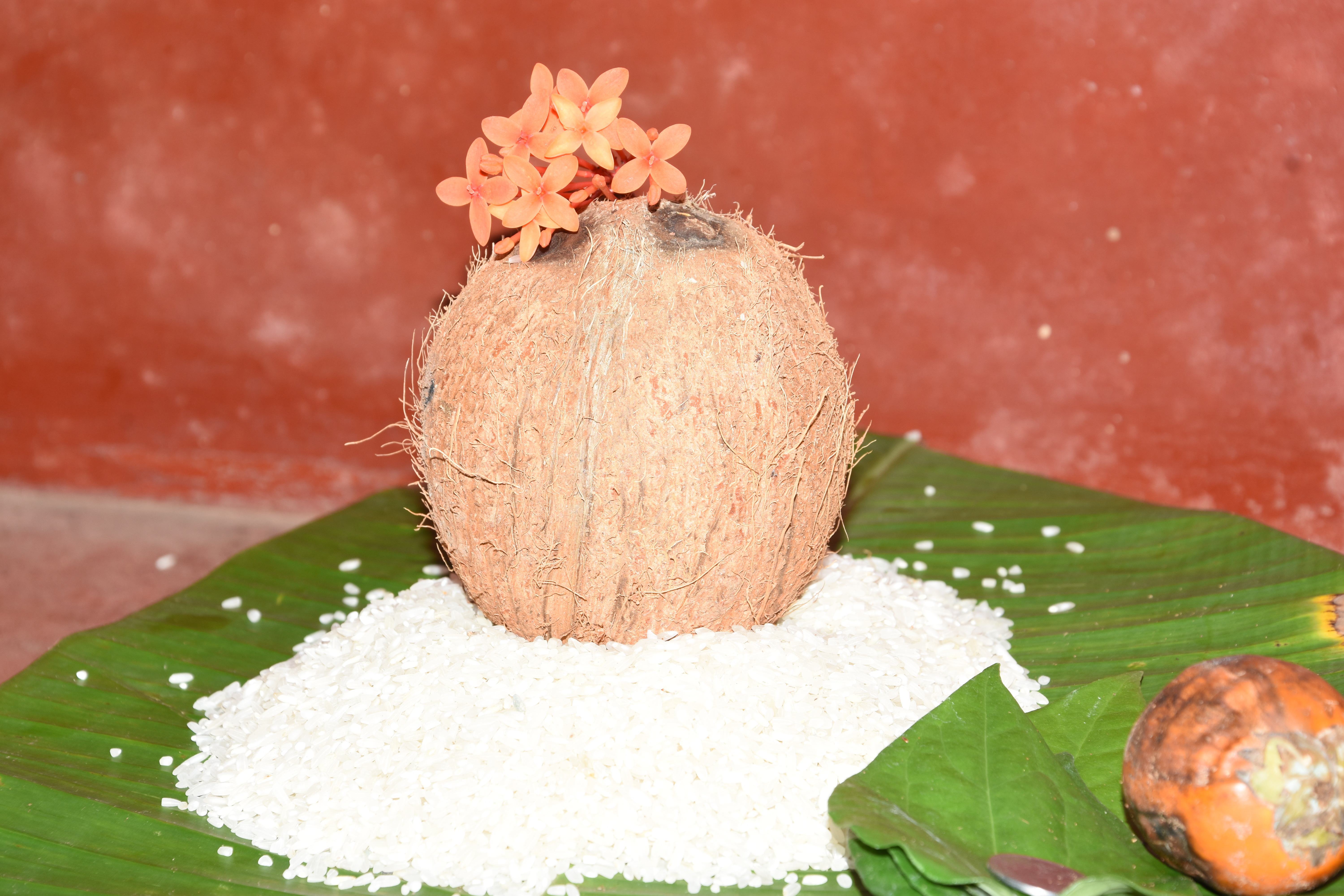 New year of Tuluvas ತುಳುವೆರೆಗ್ ಬಿಸು ಪರ್ಬ ಪೊಸ ವರ್ಸೊದ ಪರ್ಬ